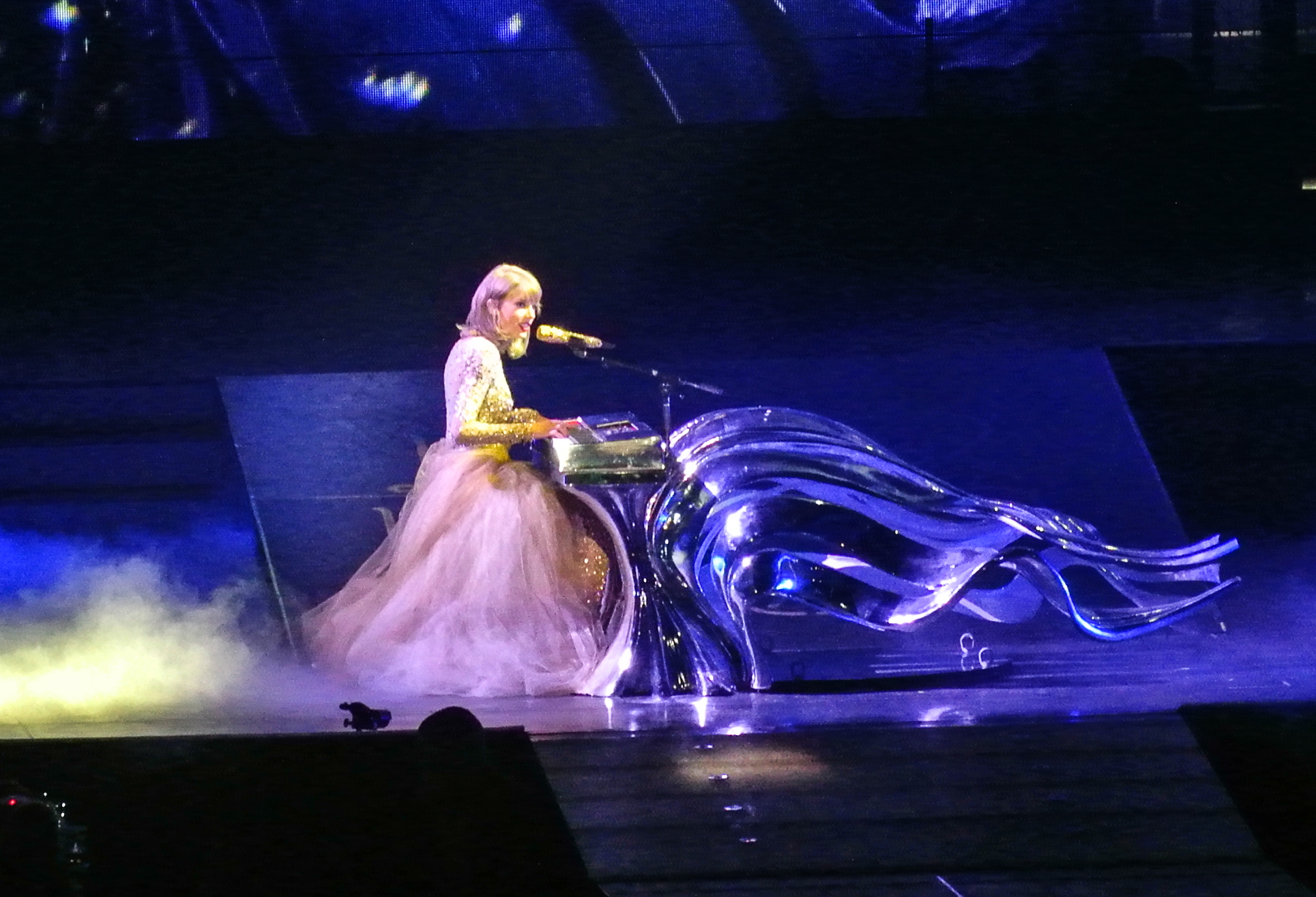 1989 Taylor Swift Concert tour Staples Center 8-22-15